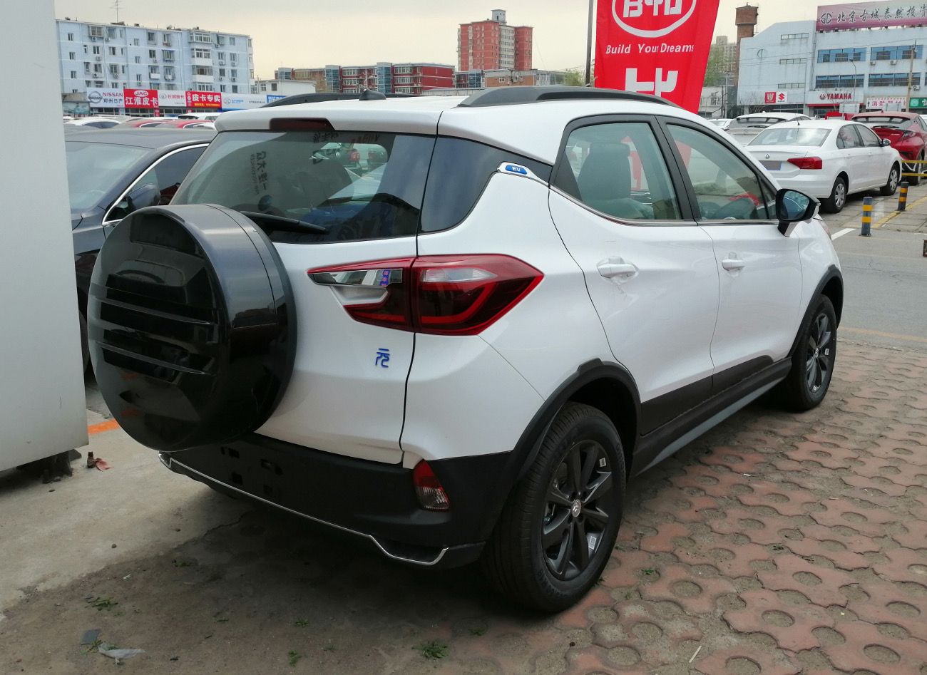 BYD Yuan EV facelift photographed in Beijing, China.